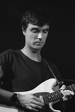 Horseshoe tavern, Toronto, May 13, 1978